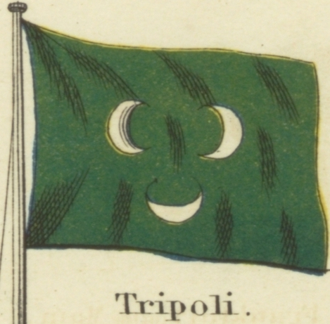 Tripoli. Johnson's new chart of national emblems, 1868.jpgDetail of Johnson's new chart of national emblems (1868).